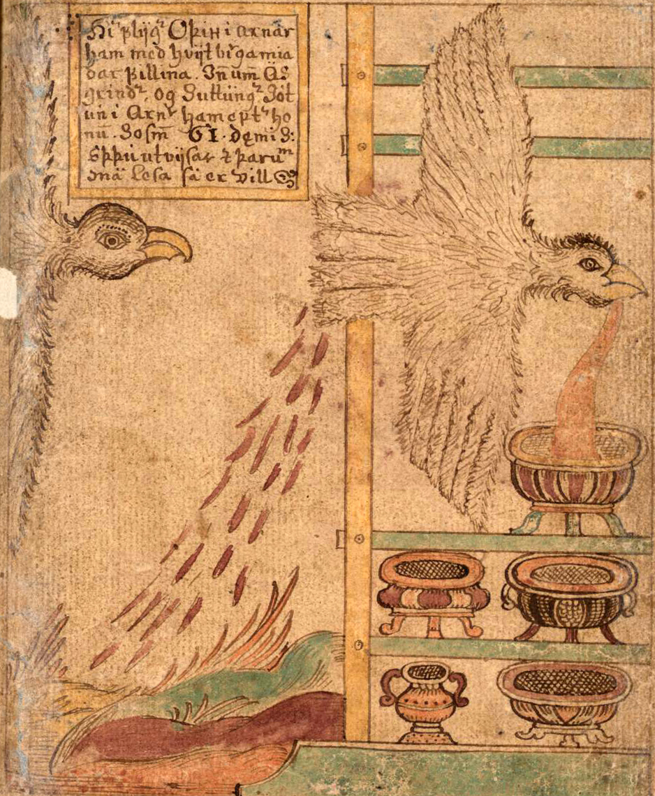 An illustration of Odin, in the shape of an eagle, stealing the Mead of Poetry from Suttungr, from an Icelandic 18th century manuscript.